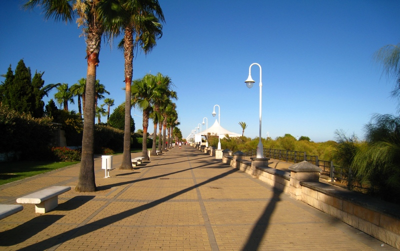 Pavement in Islantilla, Isla Cristina-Lepe, Andalucia, Spain